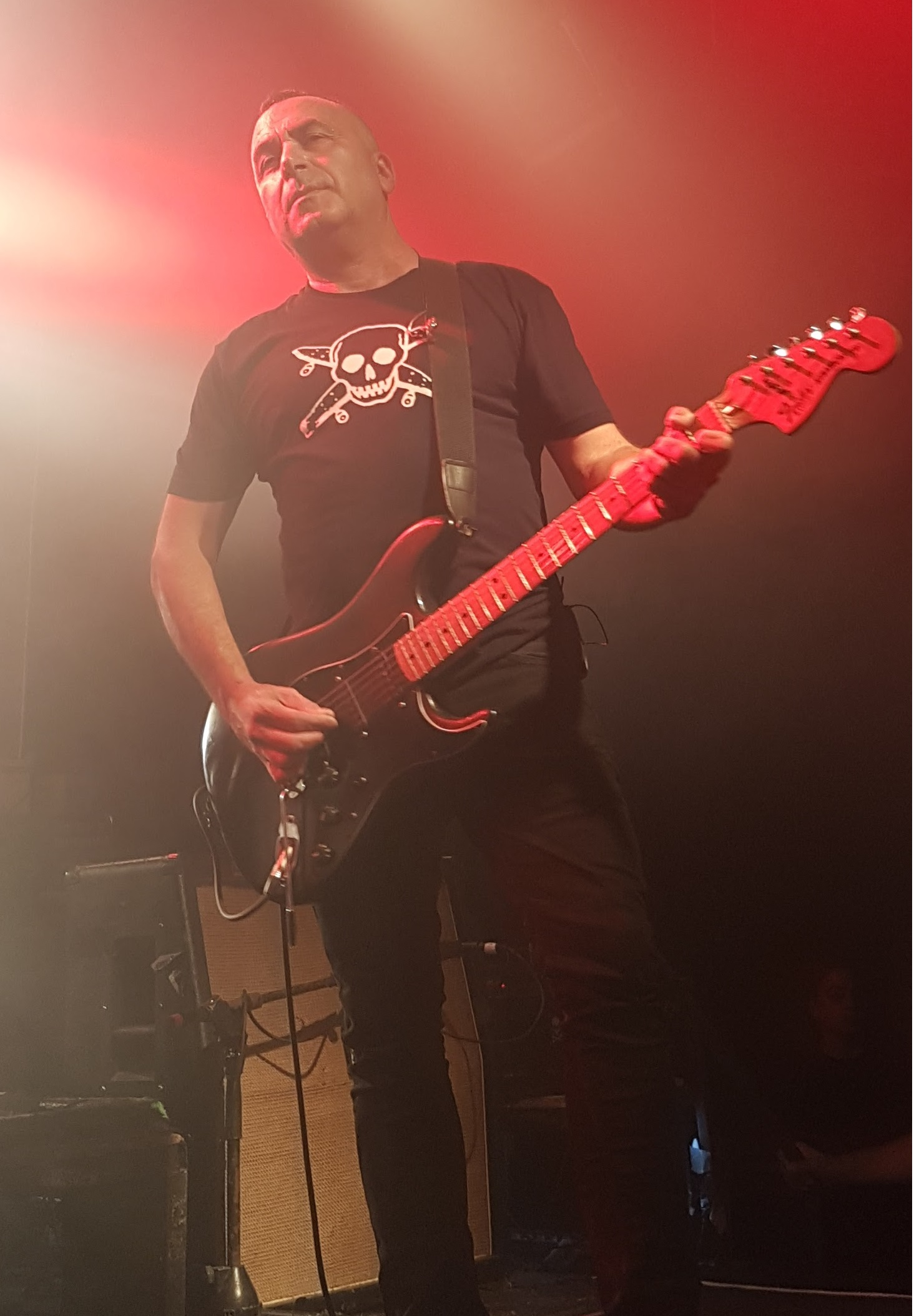 Mashina - The Barby Club, Tel Aviv June 2017